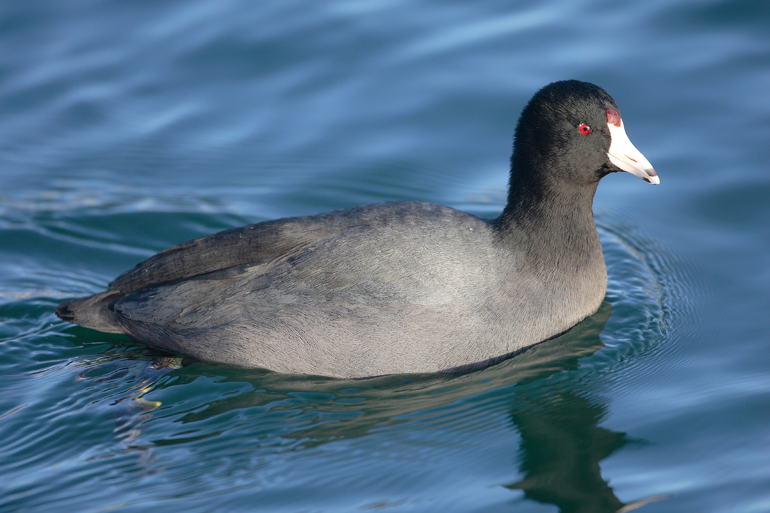 American Coot -- Humber Bay Park (East), Toronto, Canada -- 2006 March